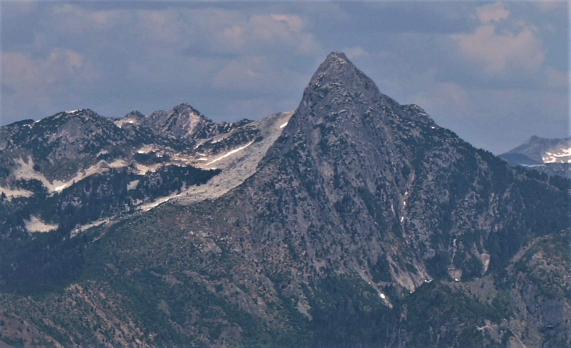 Pocket Peak from the west